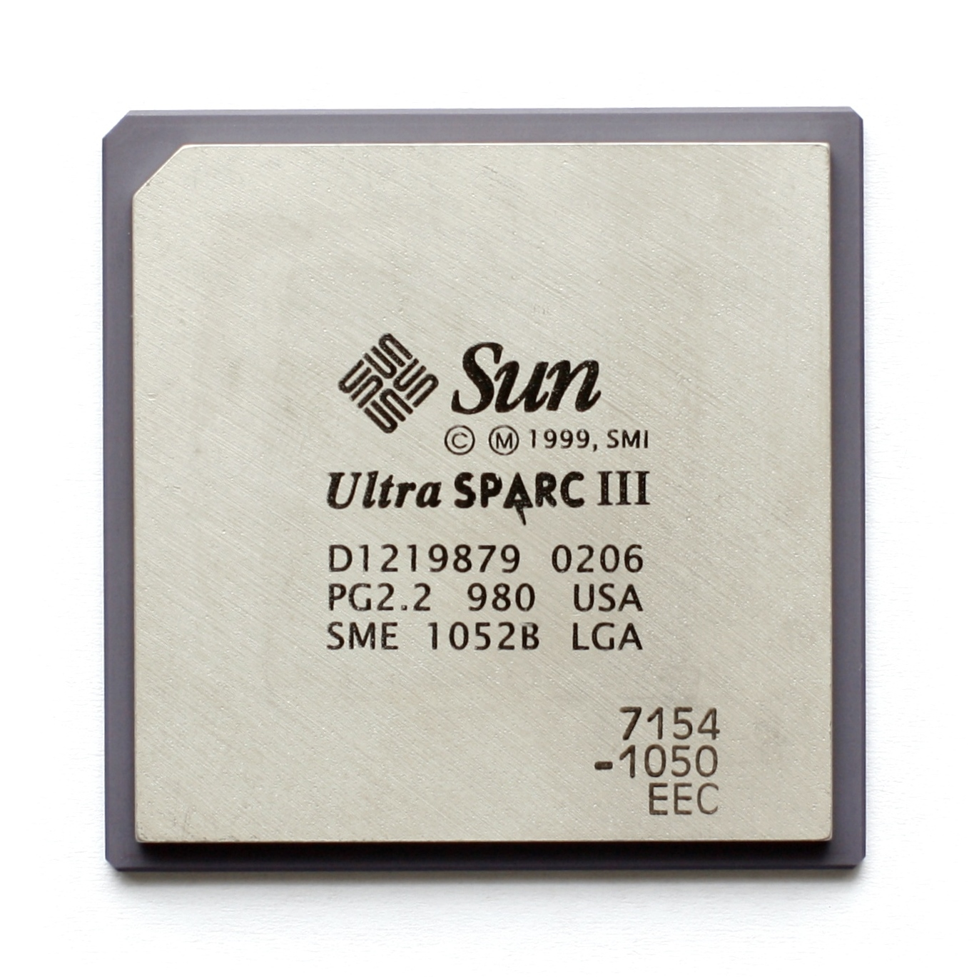 CPU SUN UltraSparc III.